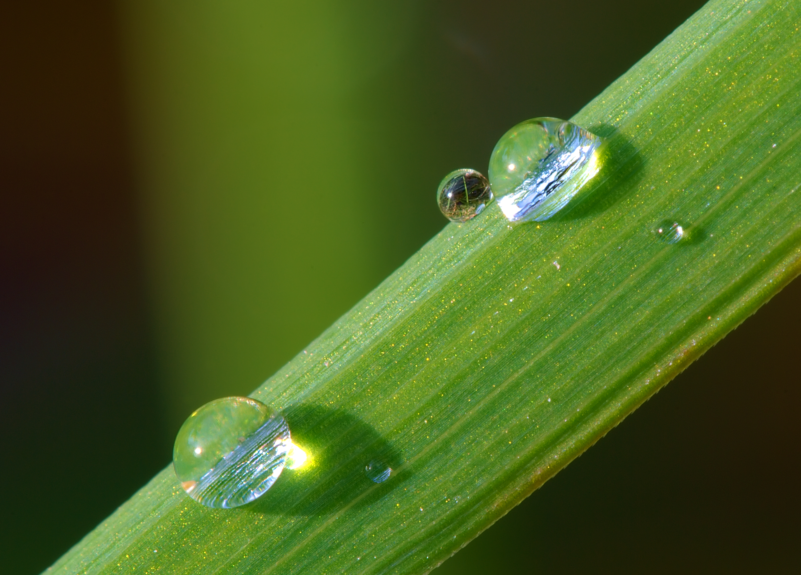 dew on grass